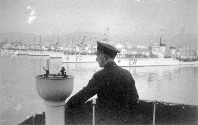 Swedish commander Hagman on the bridge of destroyer HMS Puke, on departure from La Spezia 14th april 1940. Italian destroyer crews gives farewell greetings.